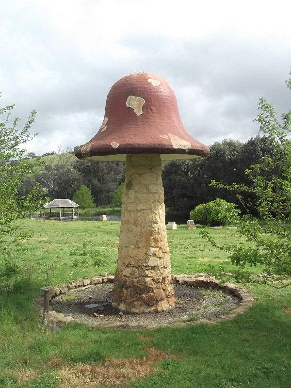 A picture of the big magic mushroom in Balingup, Western Australia